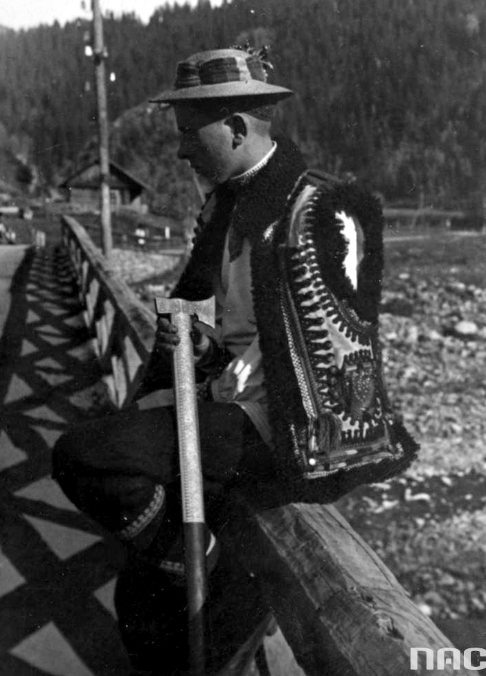 Hutsuls (Ukrainian highlanders) from Verkhovyna district, southern part of Ivano-Frankivsk oblast (province), western Ukraine. old prewar photo.